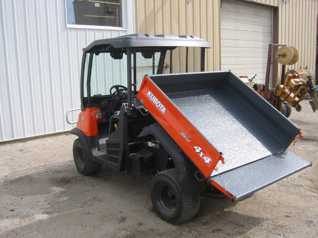 ArmorThane bed liner material protects against work abuse of any size truck